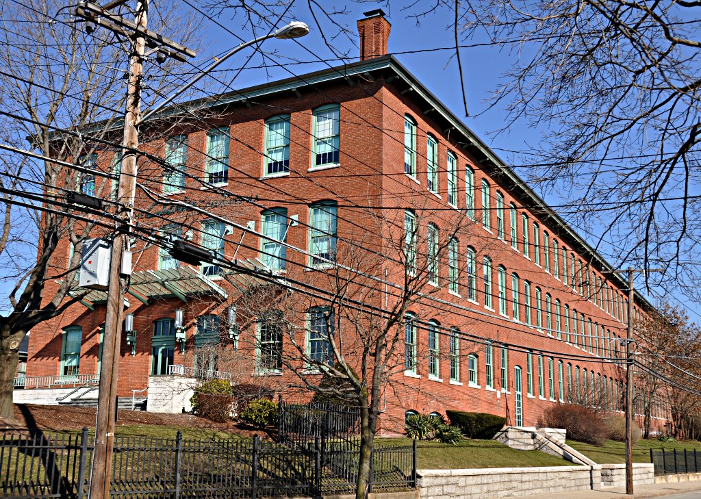 A photograph of the historic Sacco-Pettee Machine Shops in Newton, Massachusetts.